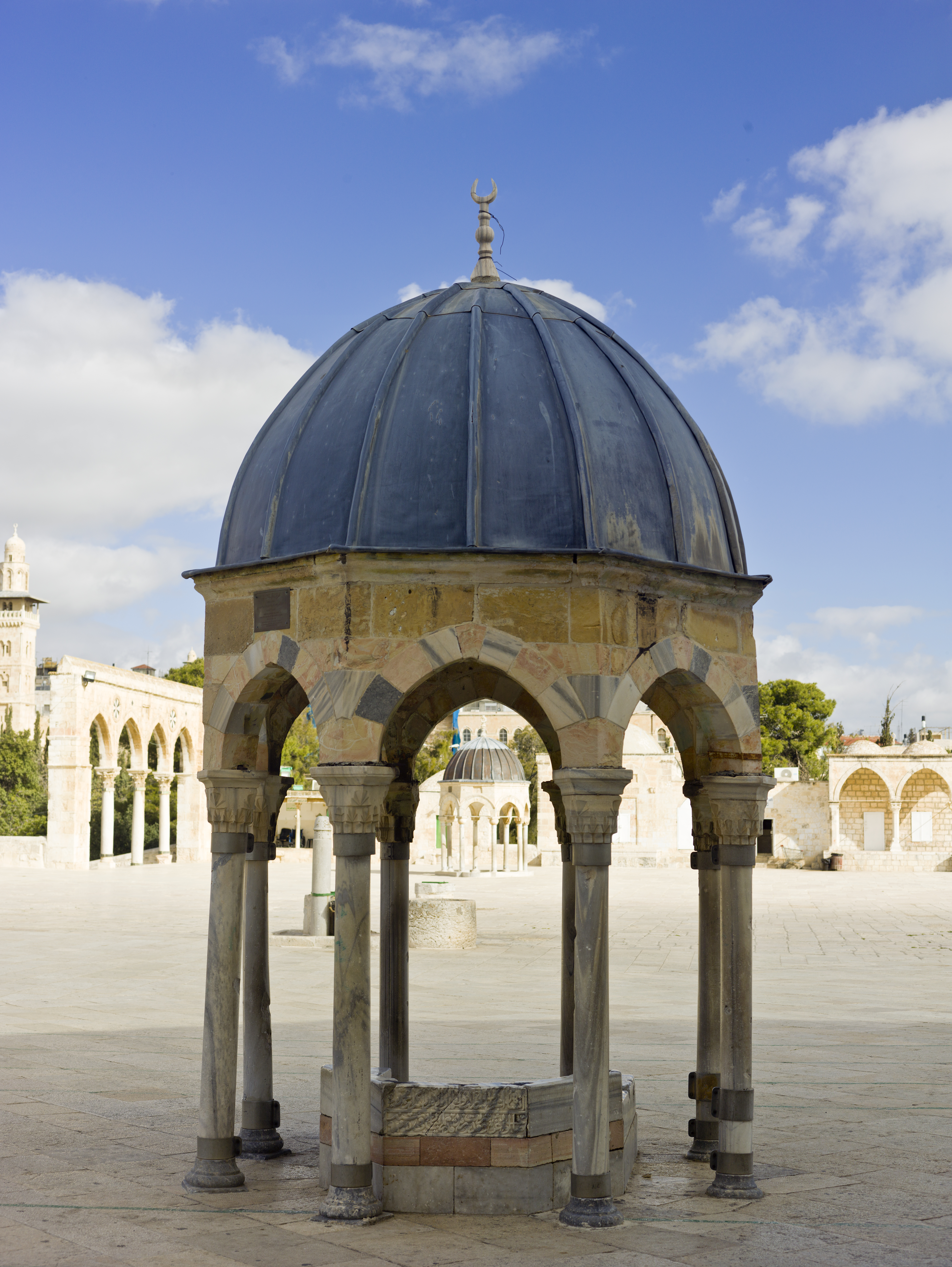 Dome of the Prophet on the Temple Mount in the Old City of Jerusalem.